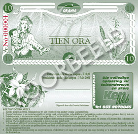 Ten Ora note, local currency used by the community of Orania, South Africa.